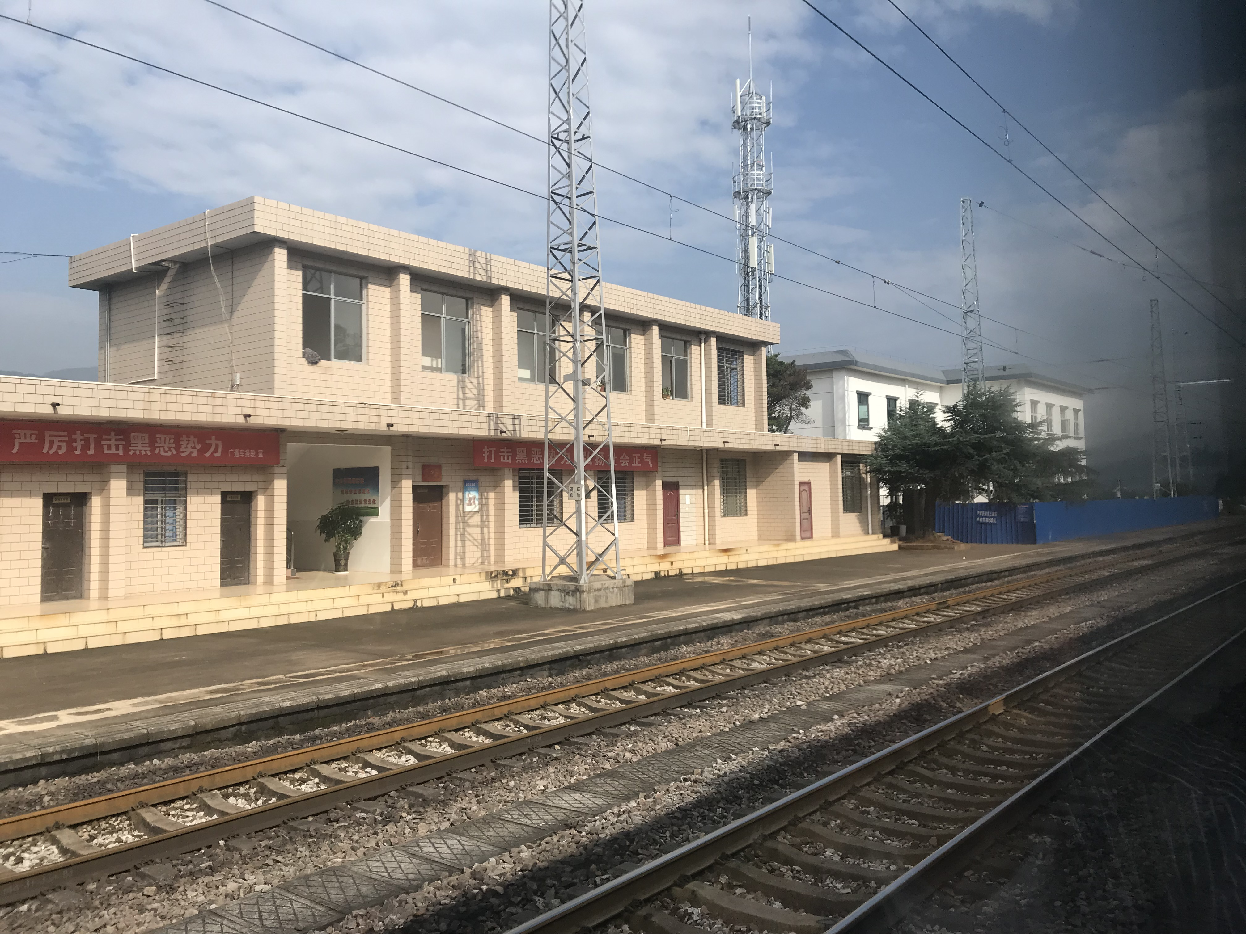 201908 Station Building of Dianwei